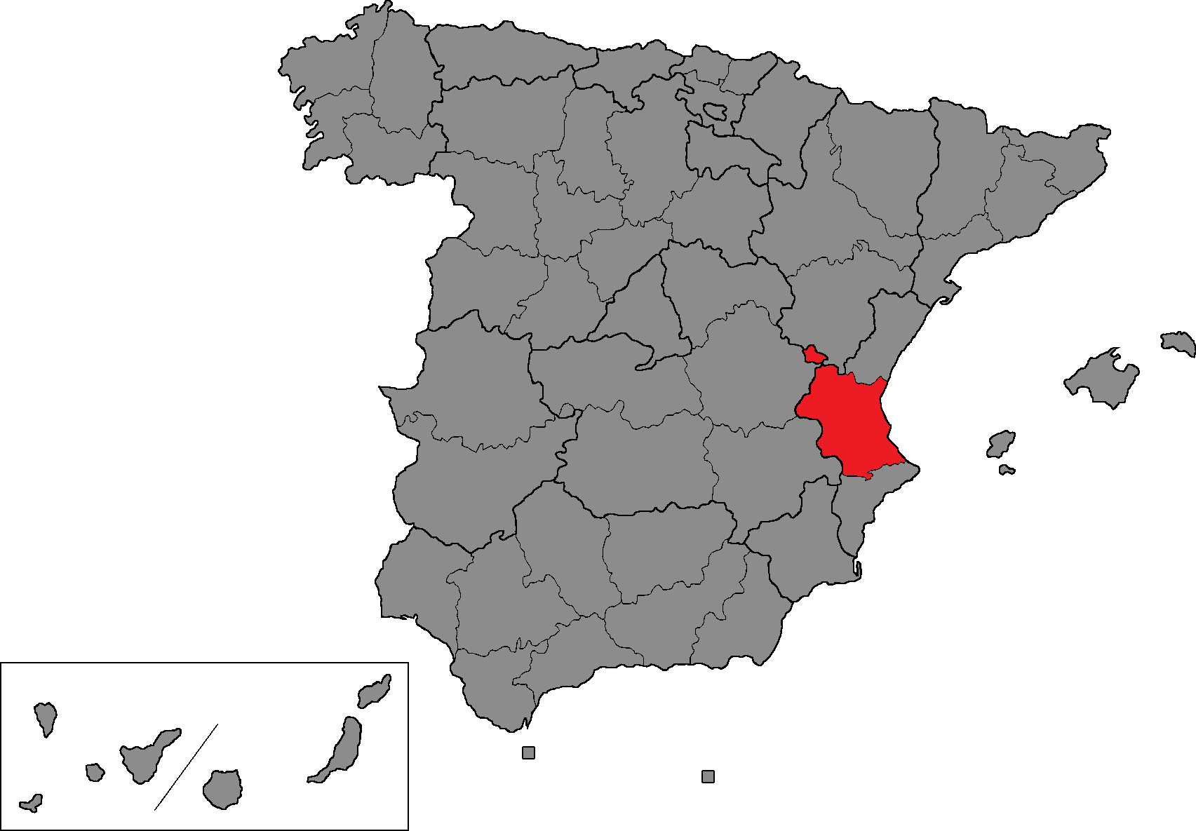 Spanish Congress of Deputies district of Valencia.